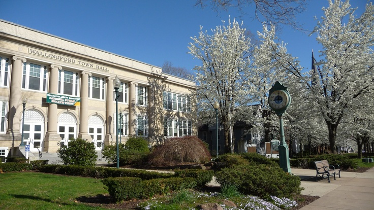 This is the town of Wallingford's Town Hall, situated on S. Main Street.